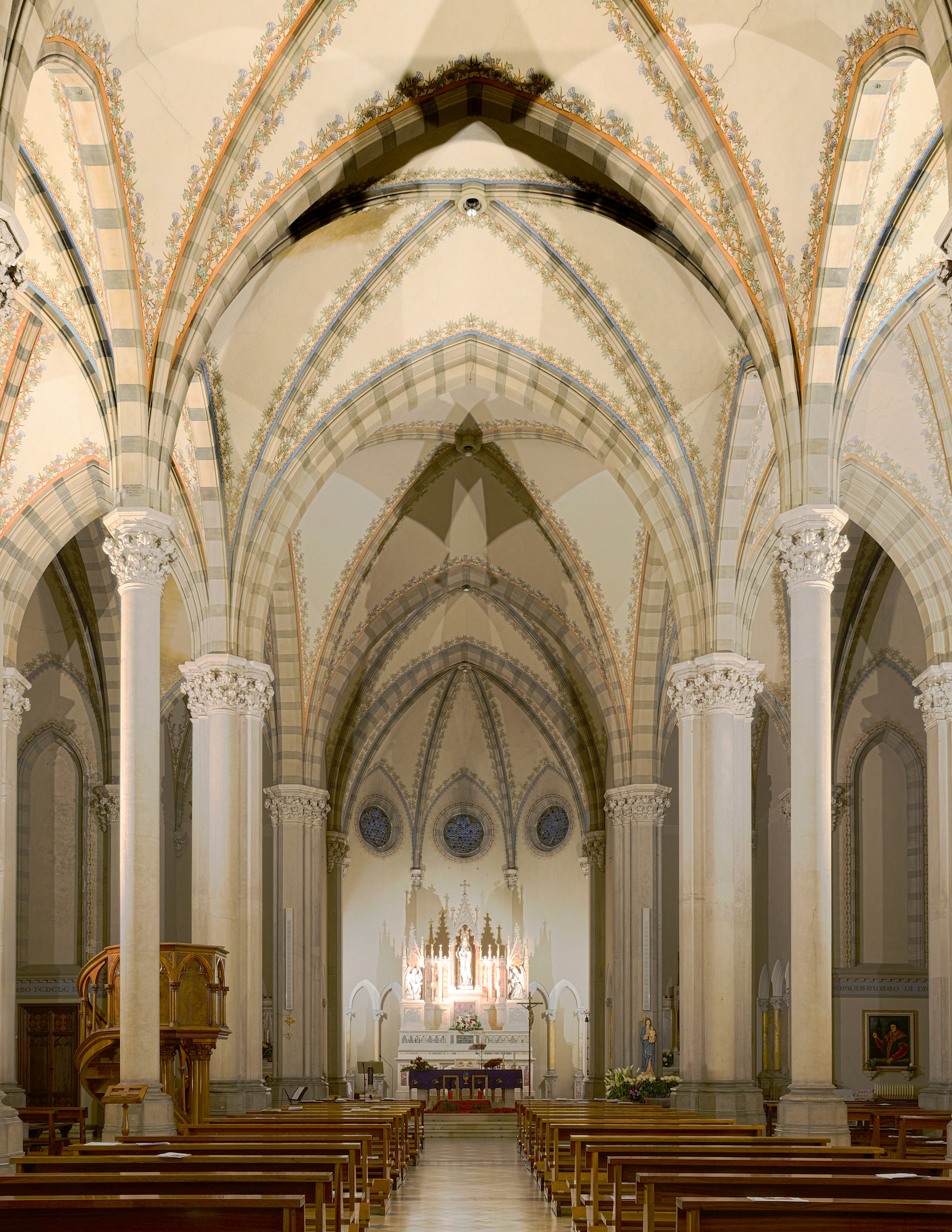 Church of Saint Thomas More - Interior